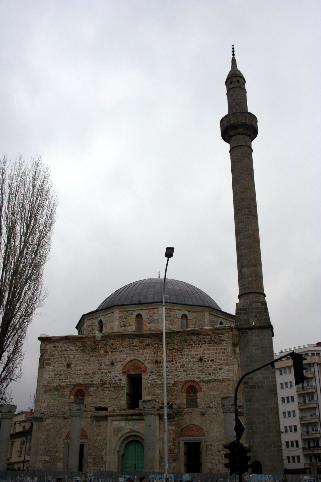 Stone Mosque — Prishtina, Kosovo.